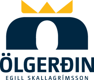 OES logo